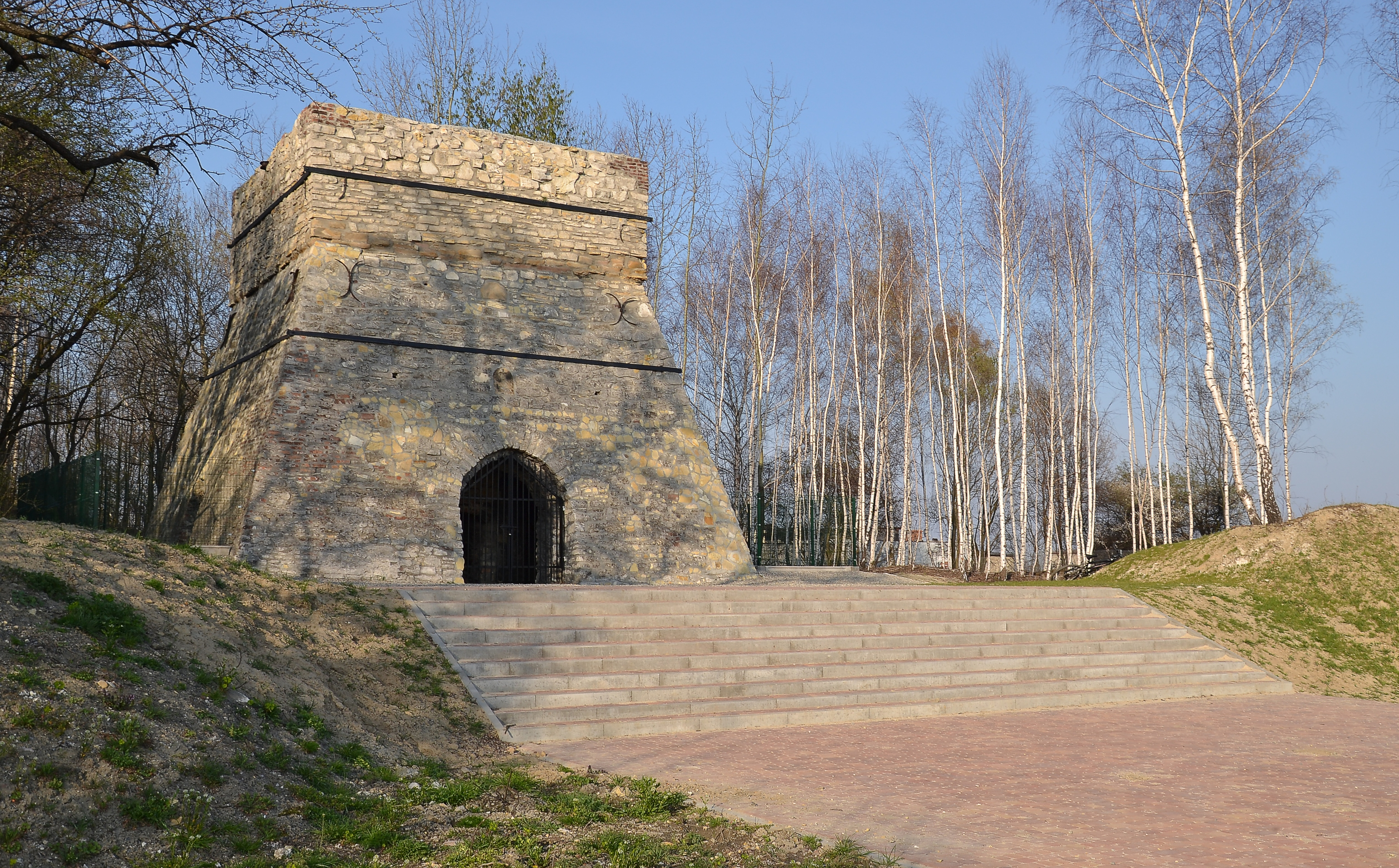 Mokre (Mokrau), Silesia - lime kiln